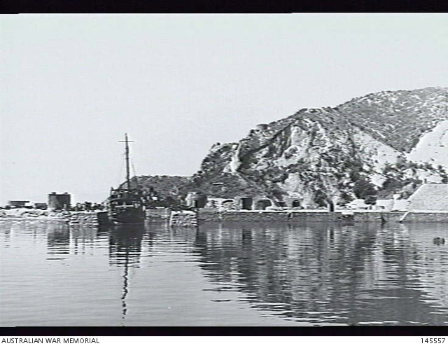 Kure, Japan. 1948-07-01. A Japanese barge pulling into Kaigoshi harbour on Kurahashi Shima to unload cordite for burning.